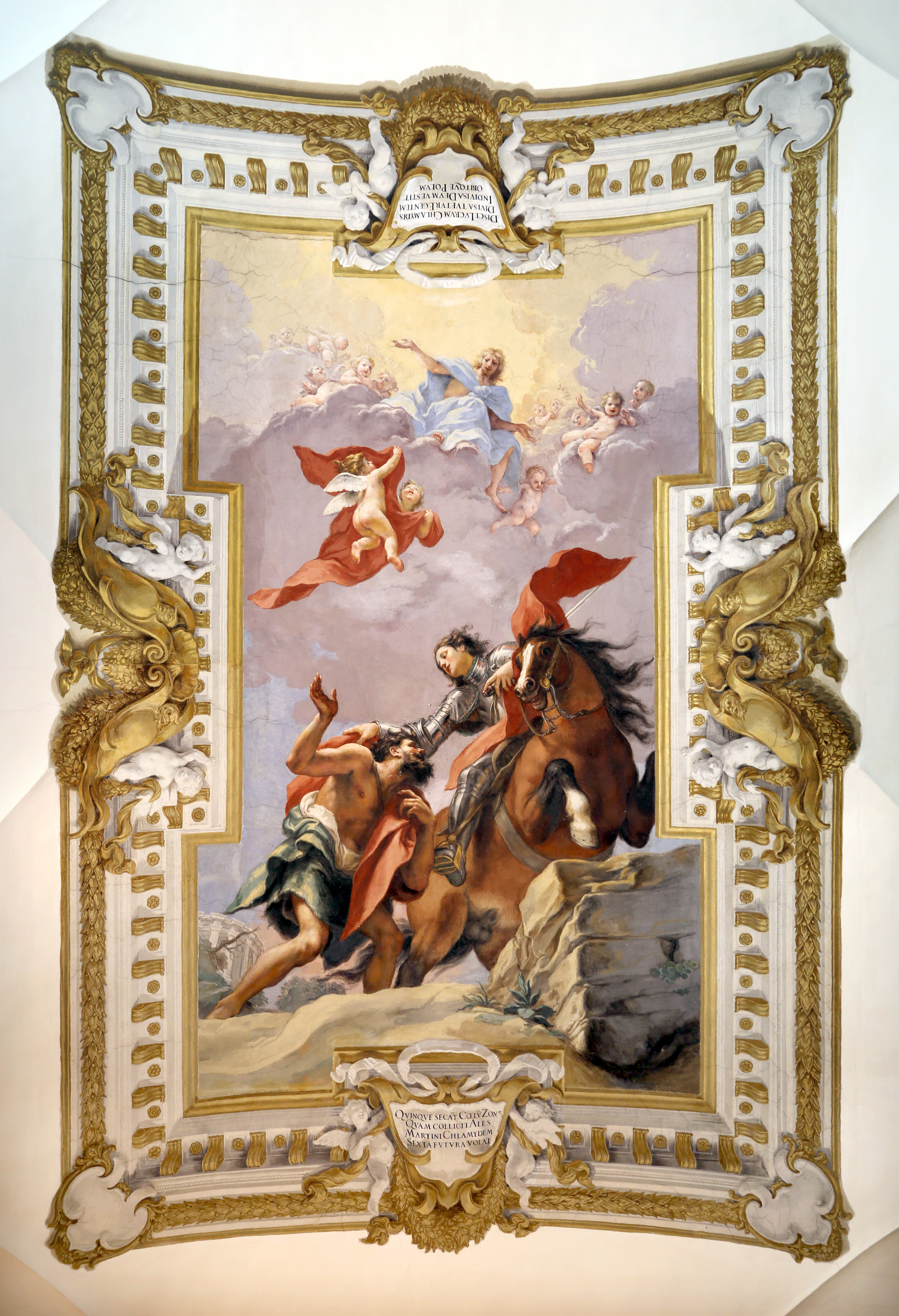 Saint Martin sharing his Cope with a Beggar by Volterrano